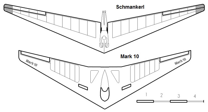 Footlaunch Gliders Boehm Schmankerl & Markmann Mark 10